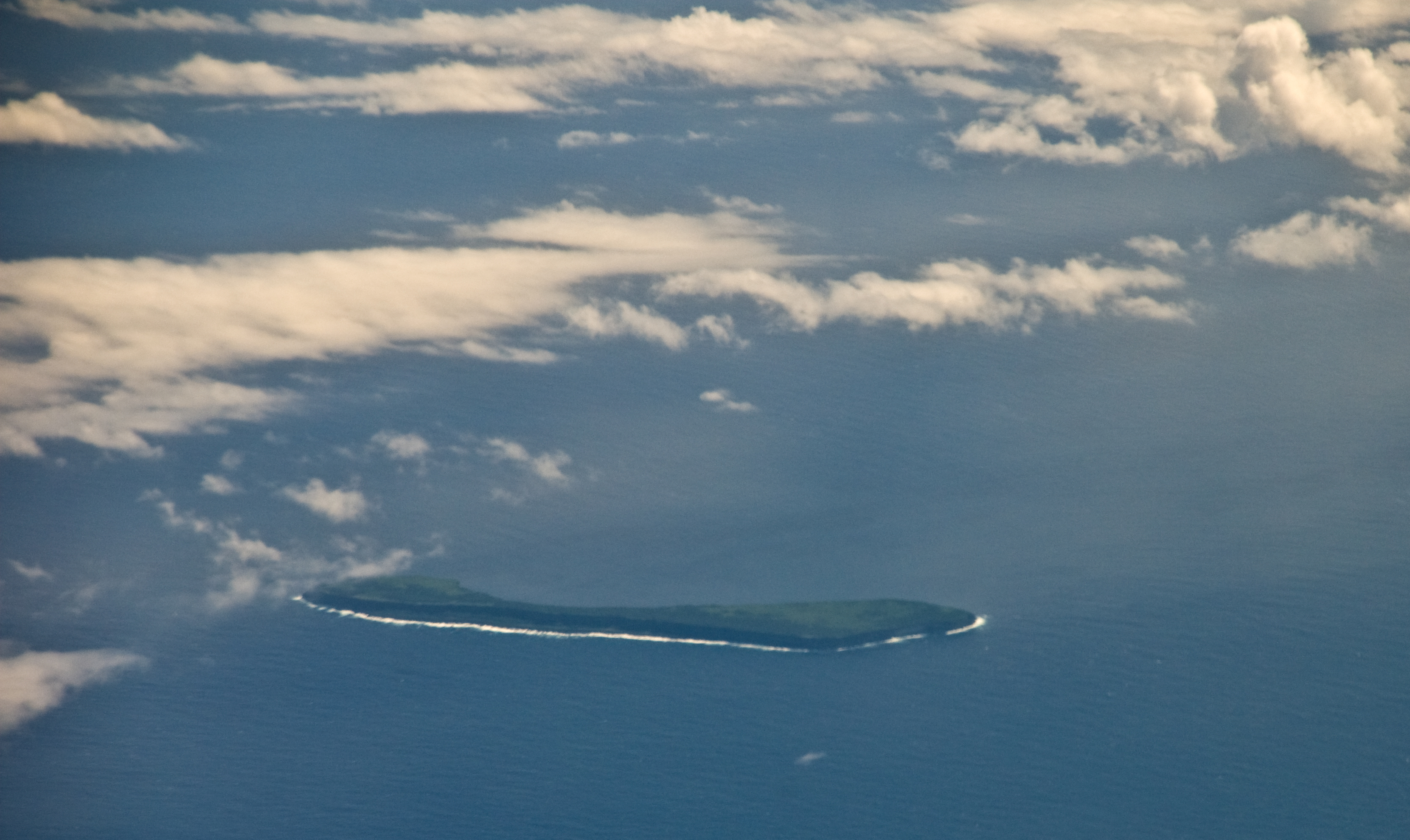 Walpole Island, New Caledonia, 2008